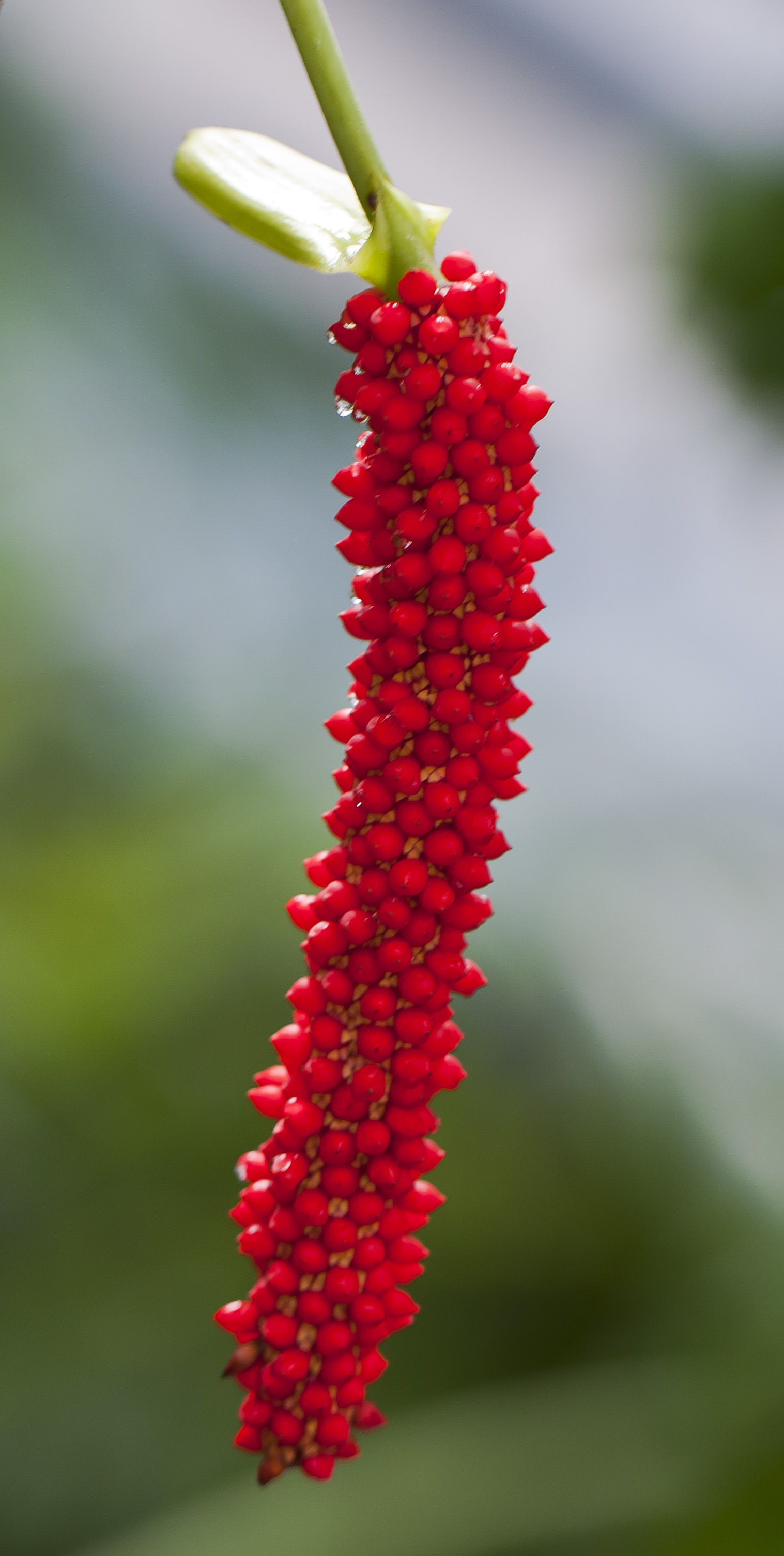 Anthurium bakeri, Tallinn Botanic Garden, Estonia